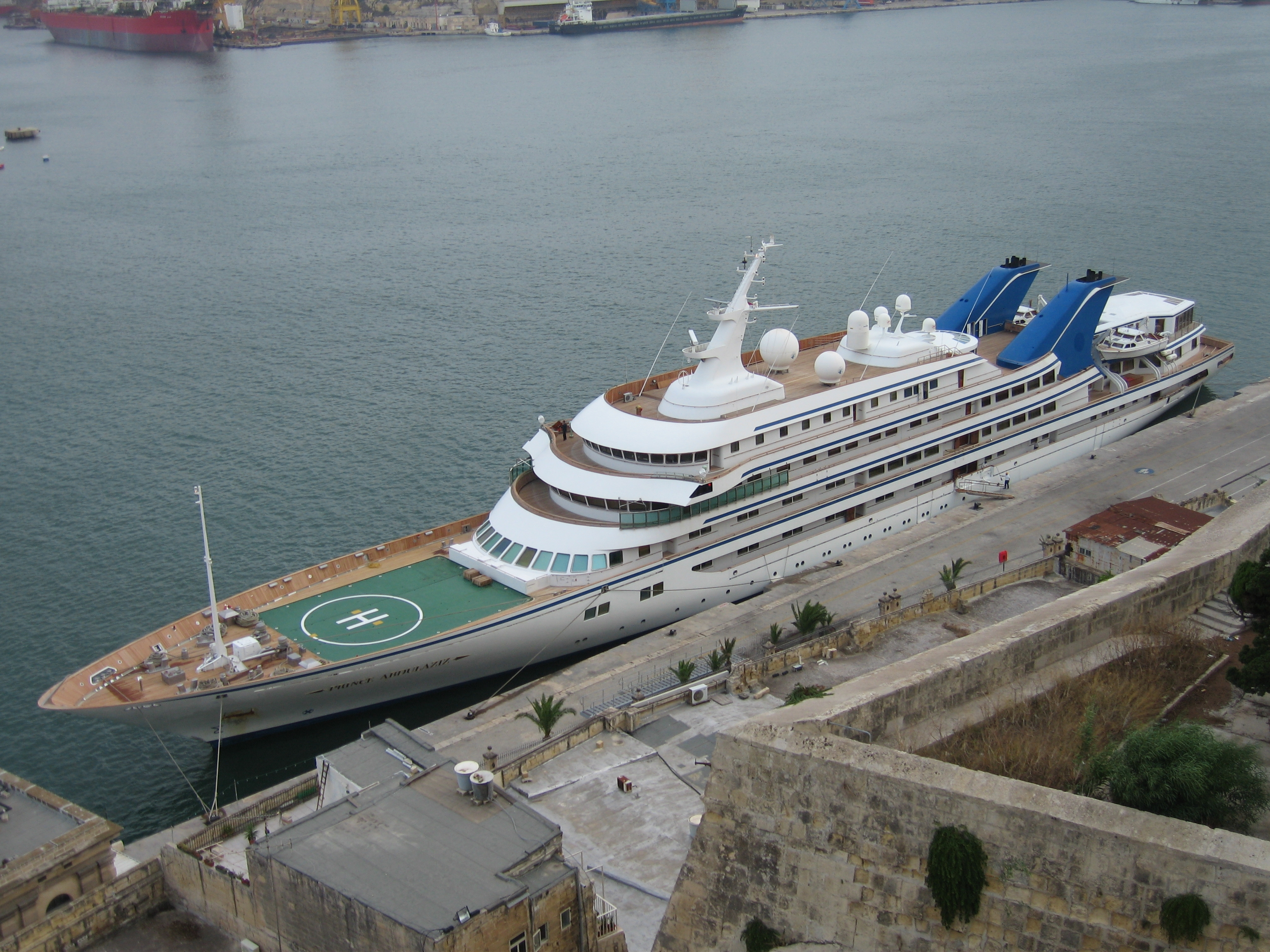 Picture of the Saudi royal yacht Prince Abdulaziz taken by me in Valletta harbour on Malta in September 2006. Note the name on the bow is Prince Abdulaziz not Prince Abdul Aziz